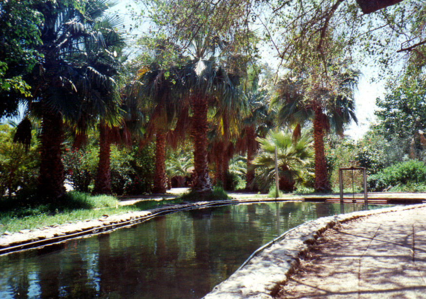 Salty Pool in the handicapped and youth meeting center Tabgha/Israel direction south